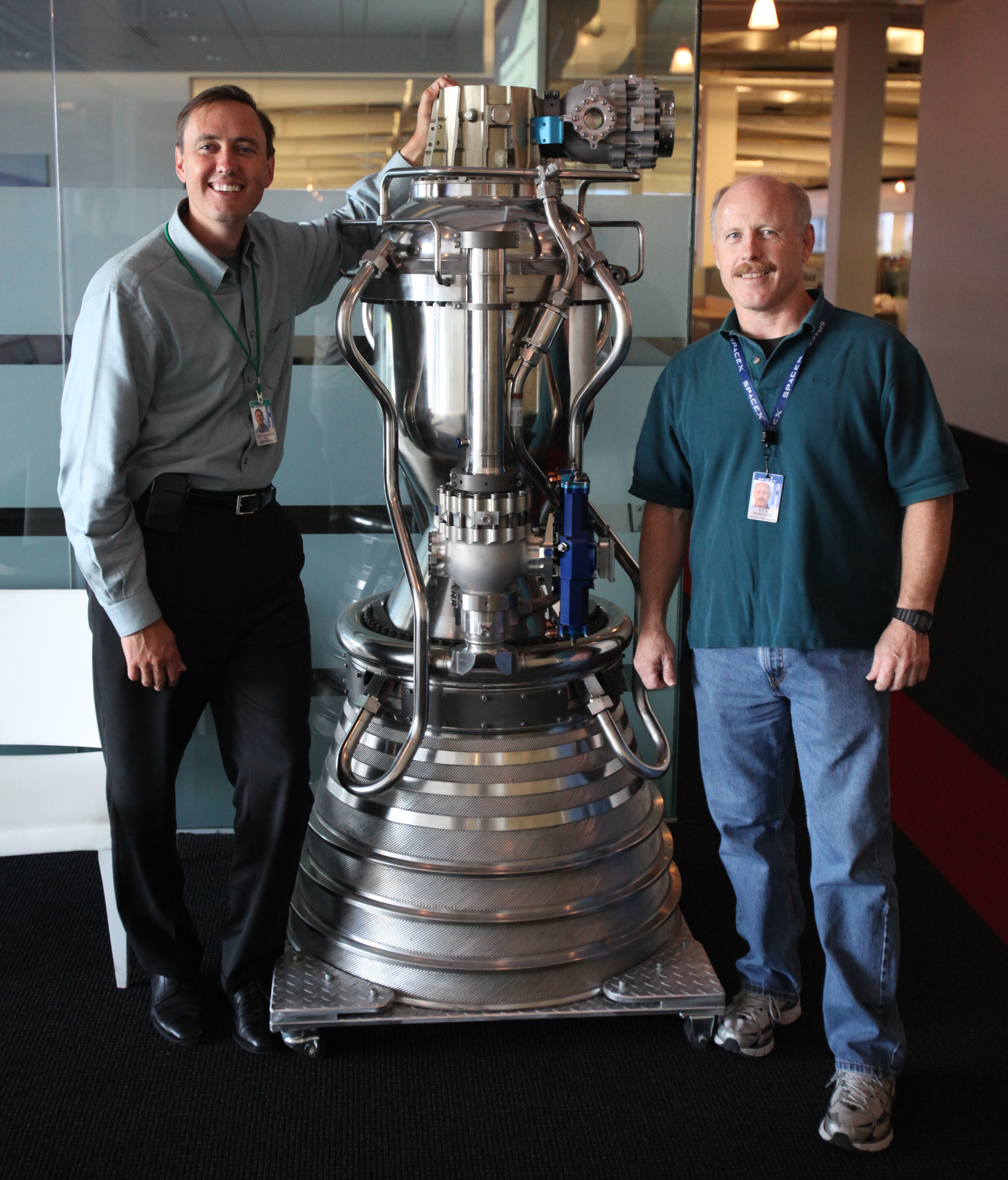 Steve Jurvetson (left) and Ken Bowersox (right), sporting the STS-73 shirt he wore while on the ISS… and reflecting on the beauty of a shiny SpaceX Merlin 1c engine this afternoon.